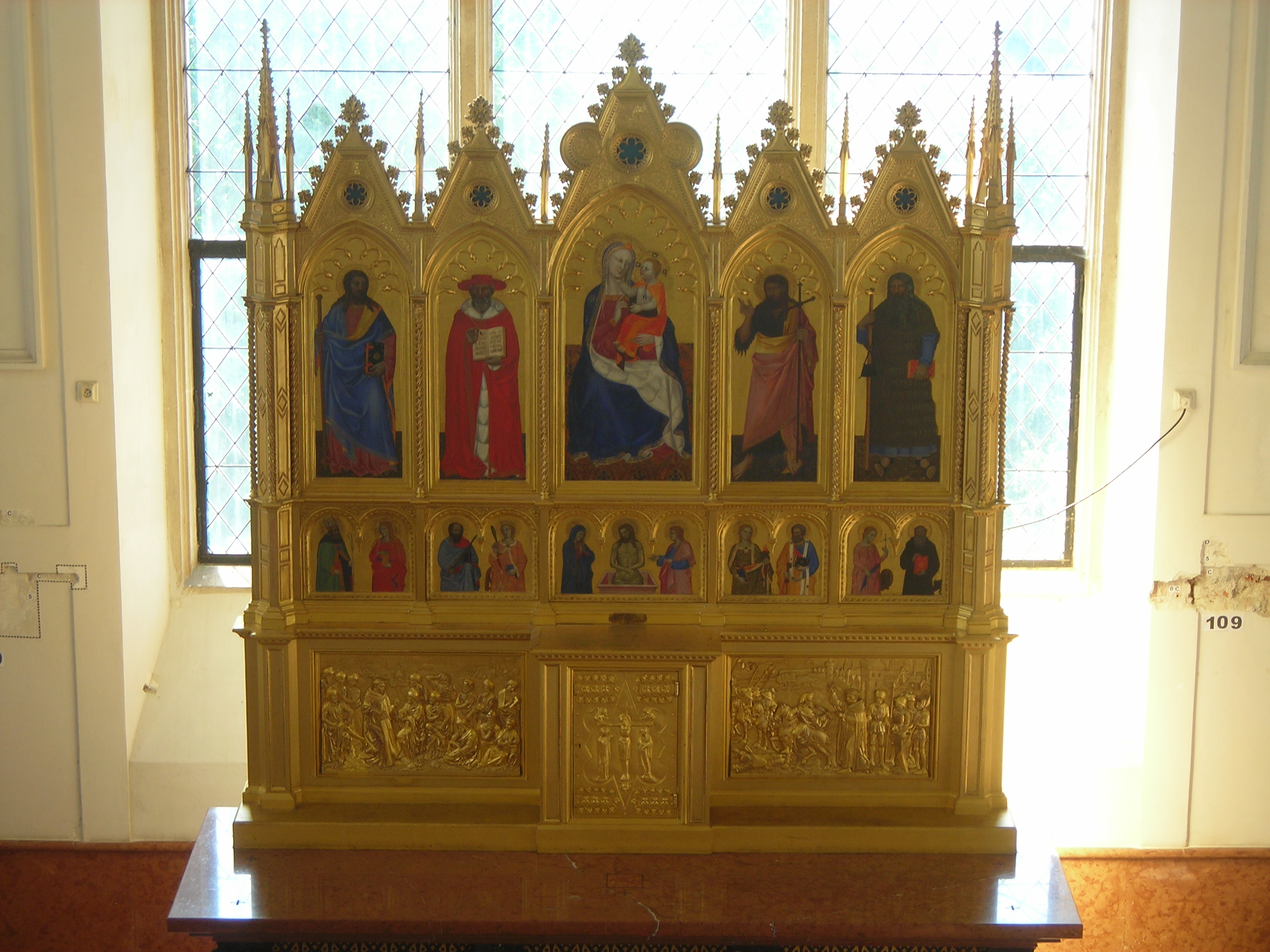 Bojnice Castle, Slovakia.